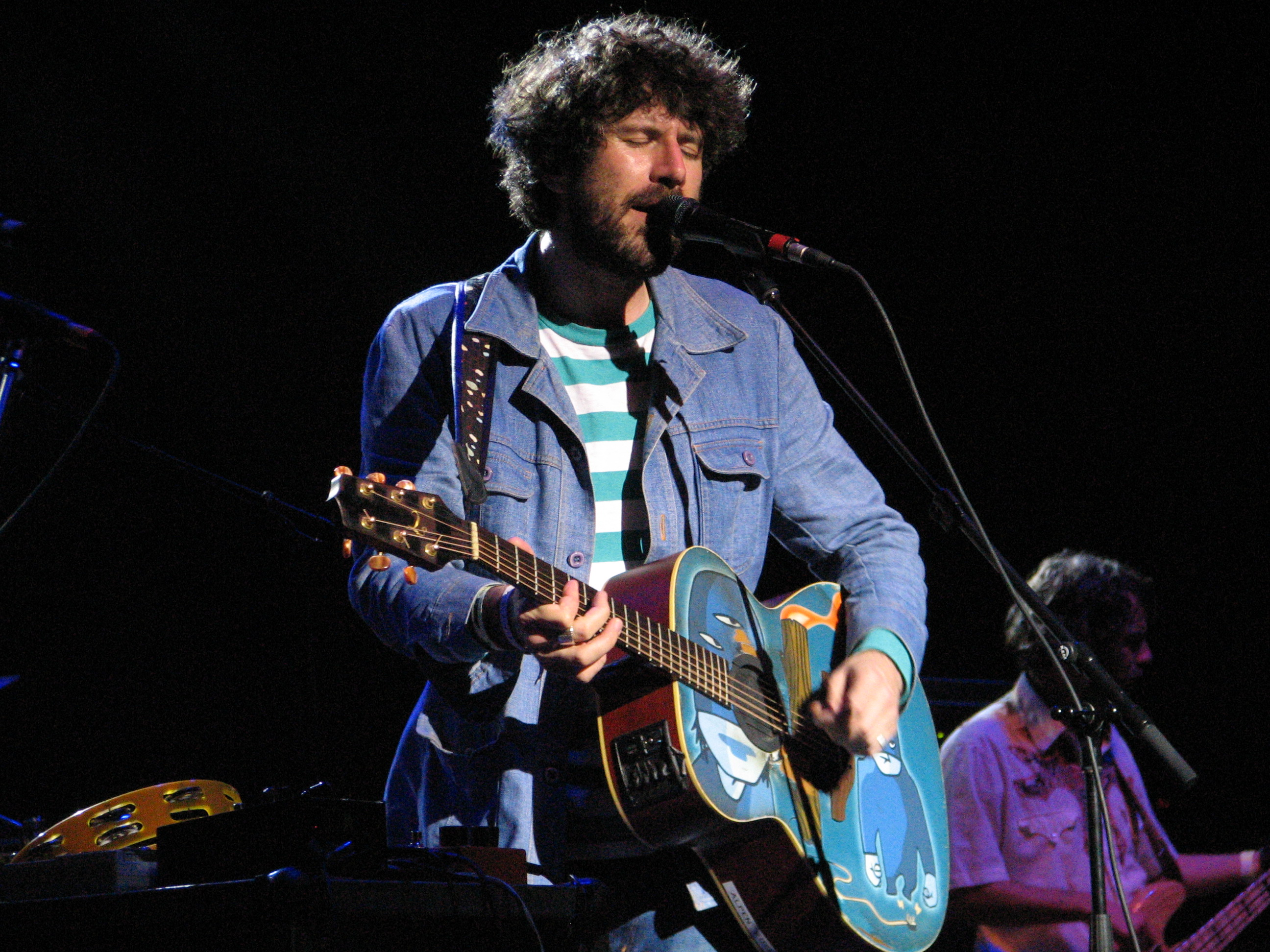 Gruff Rhys of the Super Furry Animals performing with Super Furry Animals at Indie Rock 2009.